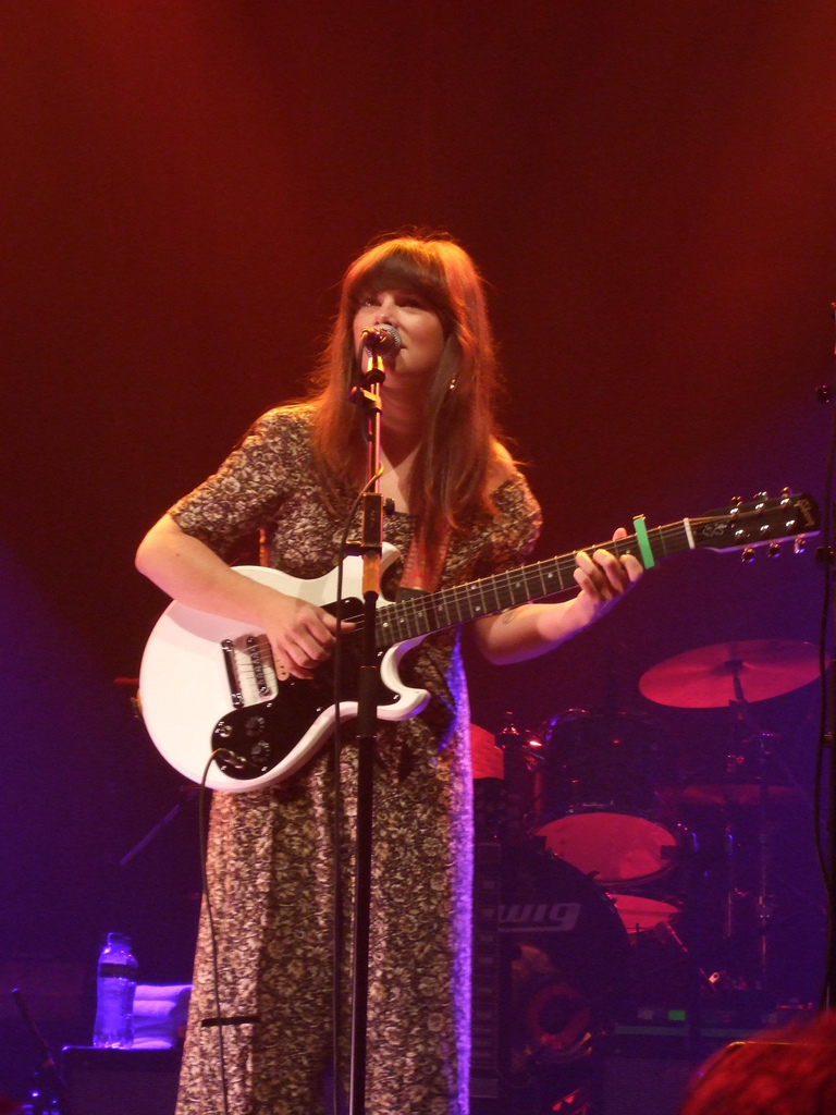 Kelli Scarr performing live at Melkweg, July 2009.